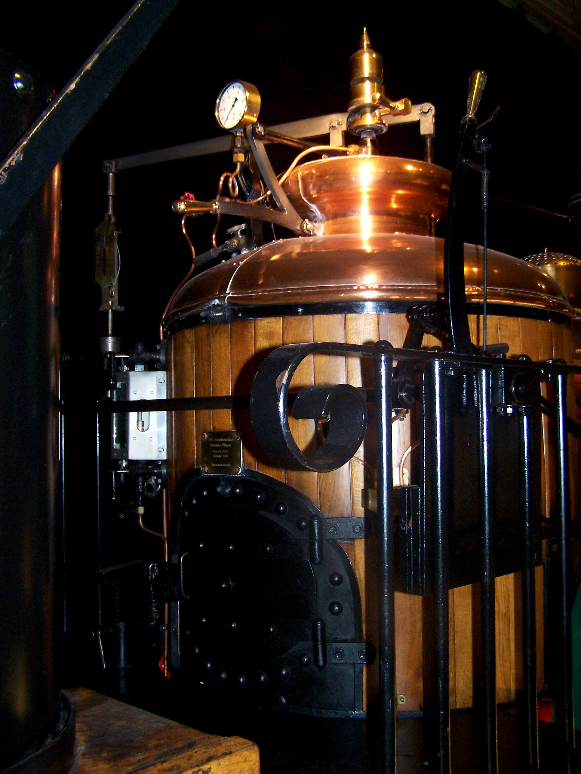 Boiler of the replica from 1989 of the historic steam locomotive Saxonia from 1838 in the Transport Museum in Nuremberg in the exhibition "Adler, Rocket and Co."